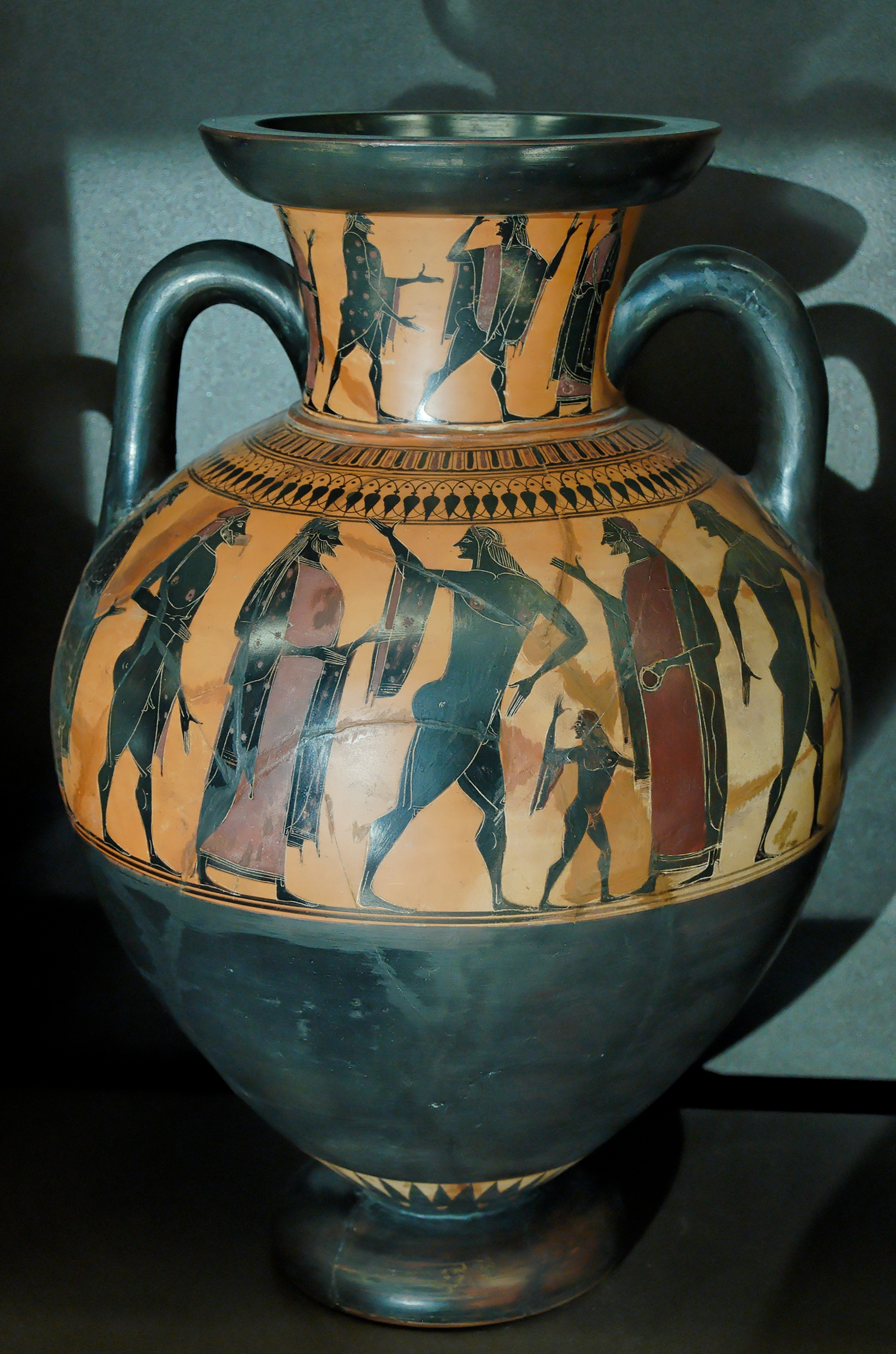 Pederastic courtship. Side A from an black-figure Attic neck-amphora, ca. 540–520 BC. From Etruria.